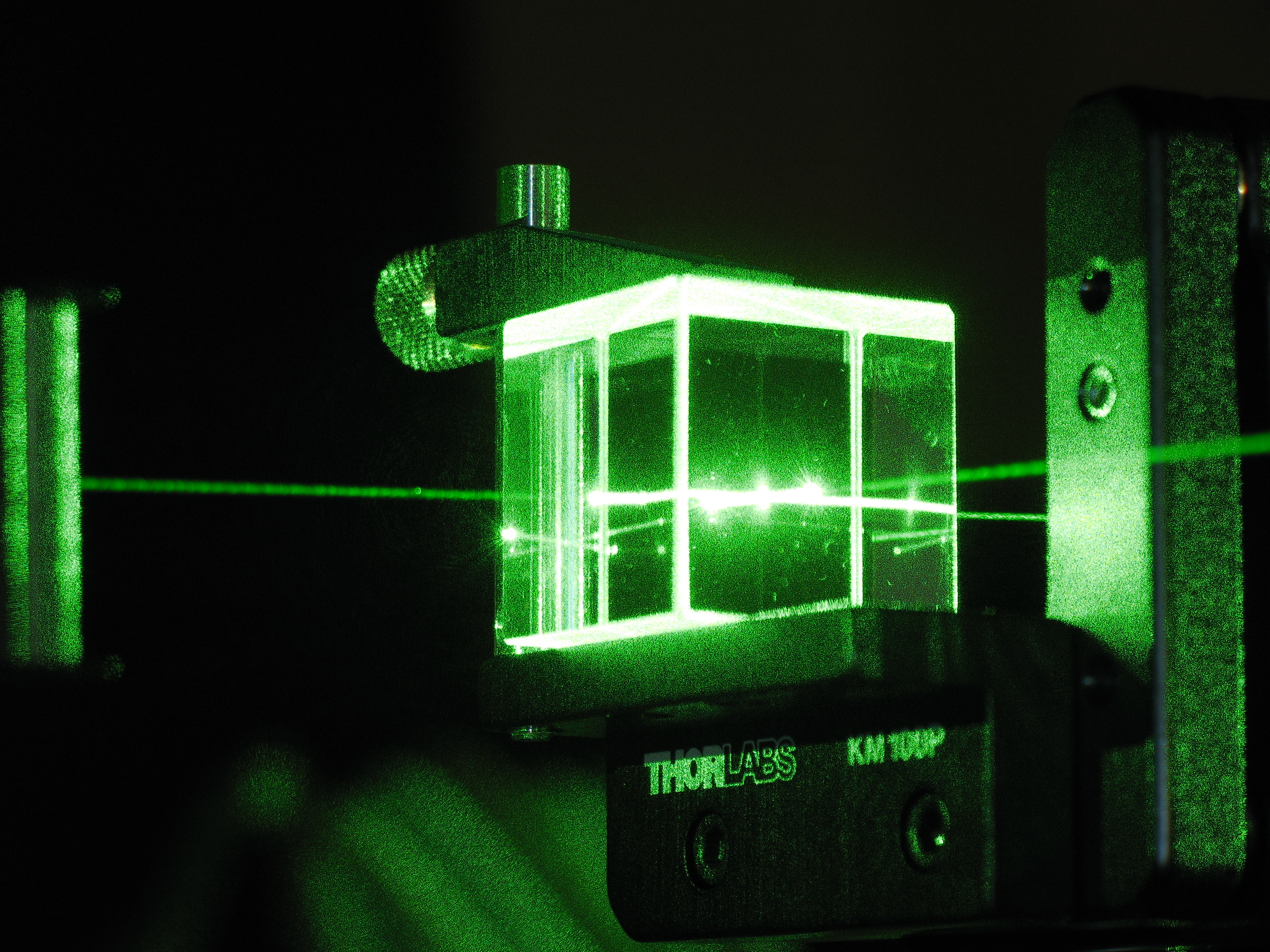 Thorlabs beam splitter in action